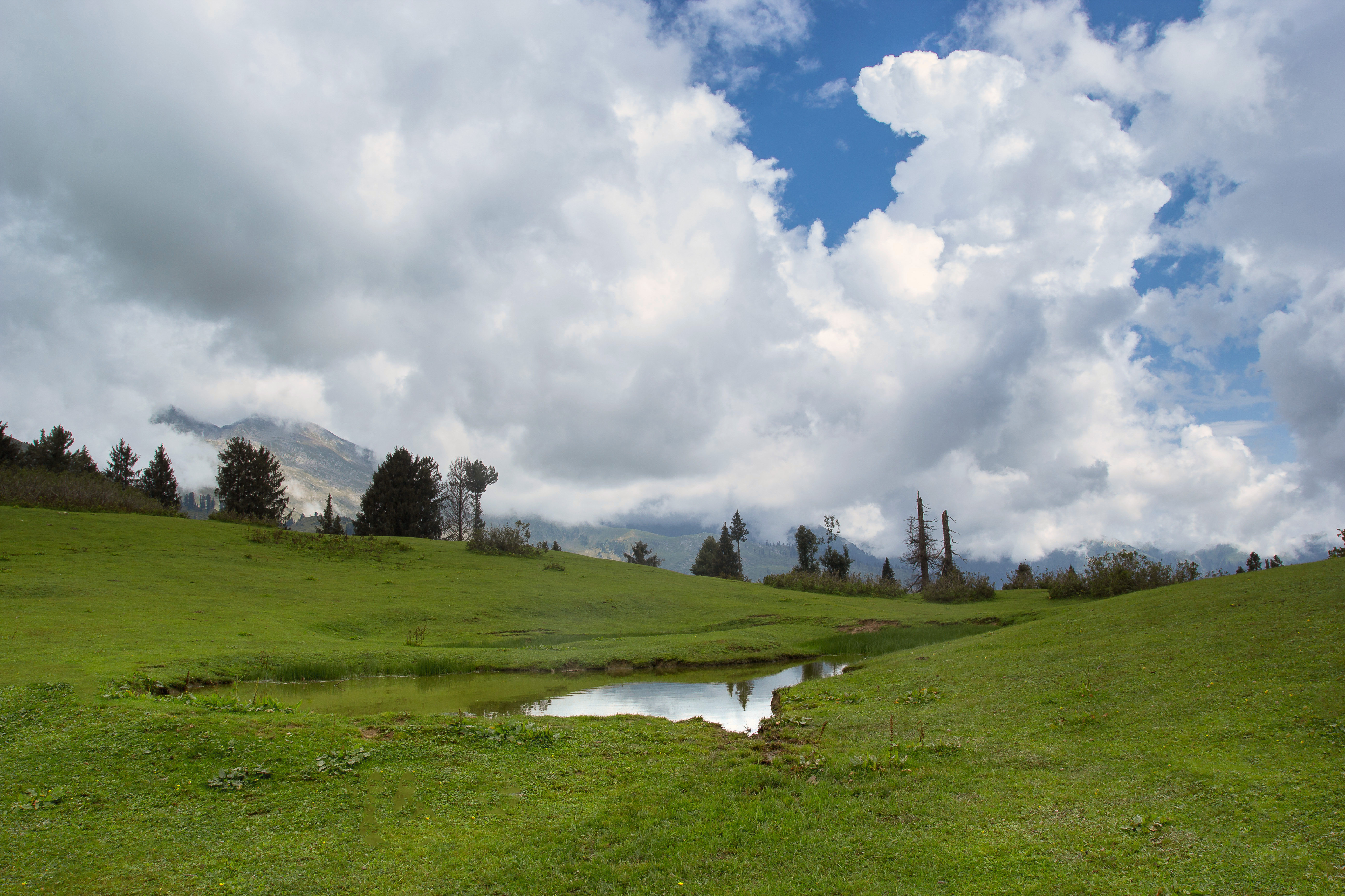 This is another picture from hiking adventure to upper siran valley